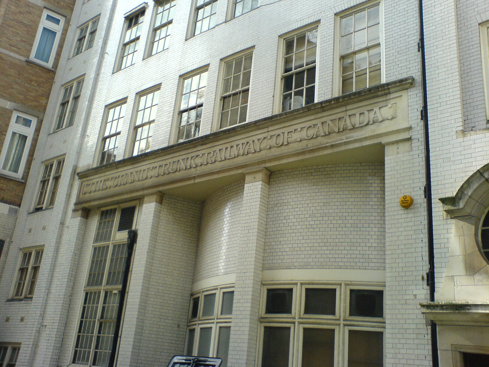 Former headquarters of the Grand Trunk Railway of Canada in London, GB